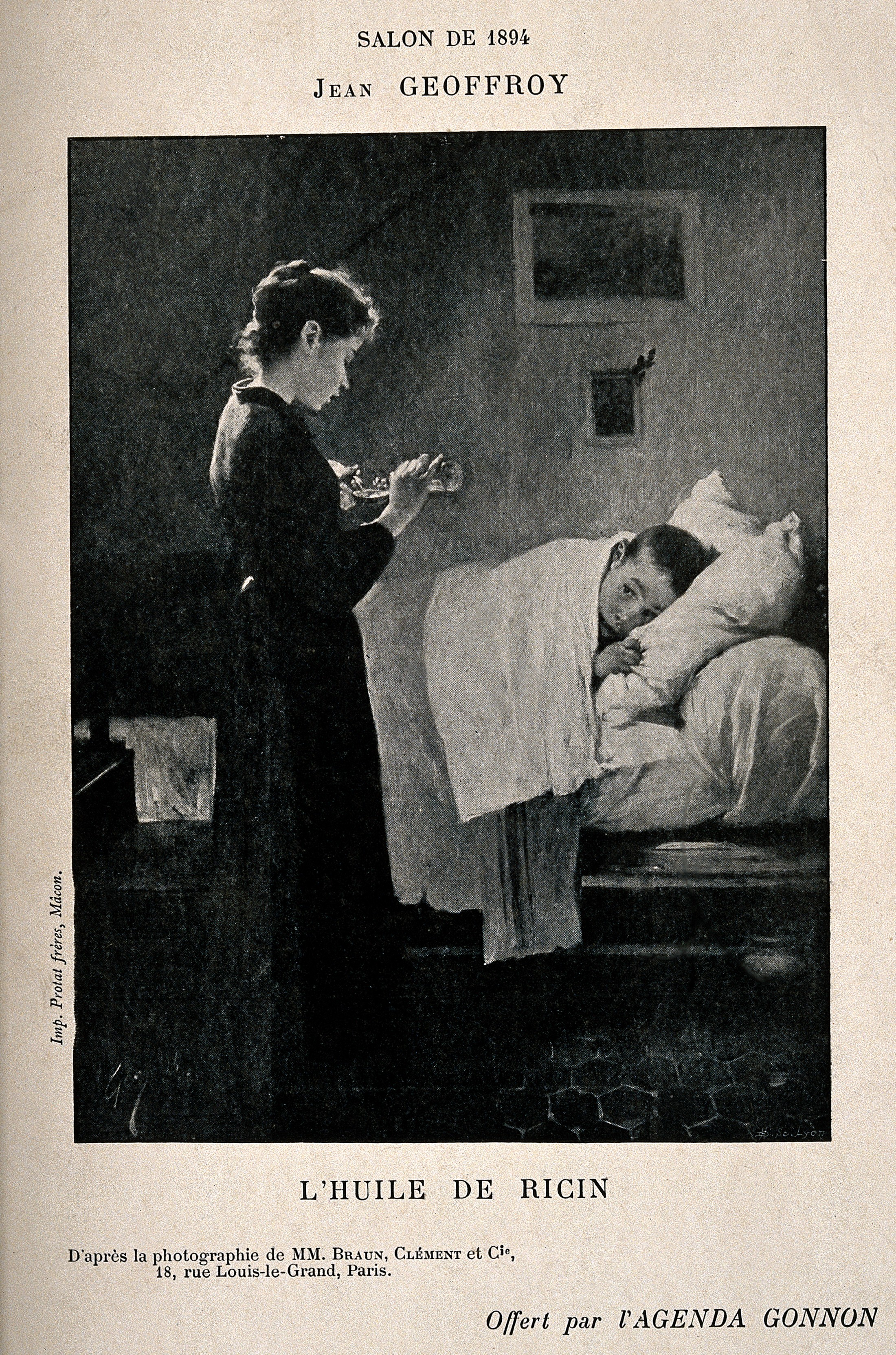 A sick child in bed has his castor oil medicine poured for him, France. Photomechanical print after J. Geoffroy, 1894. Iconographic Collections Keywords: Jean Henry Jules Geoffroy; ic; Castor Oil; MM. Braun, Clément et Cie..